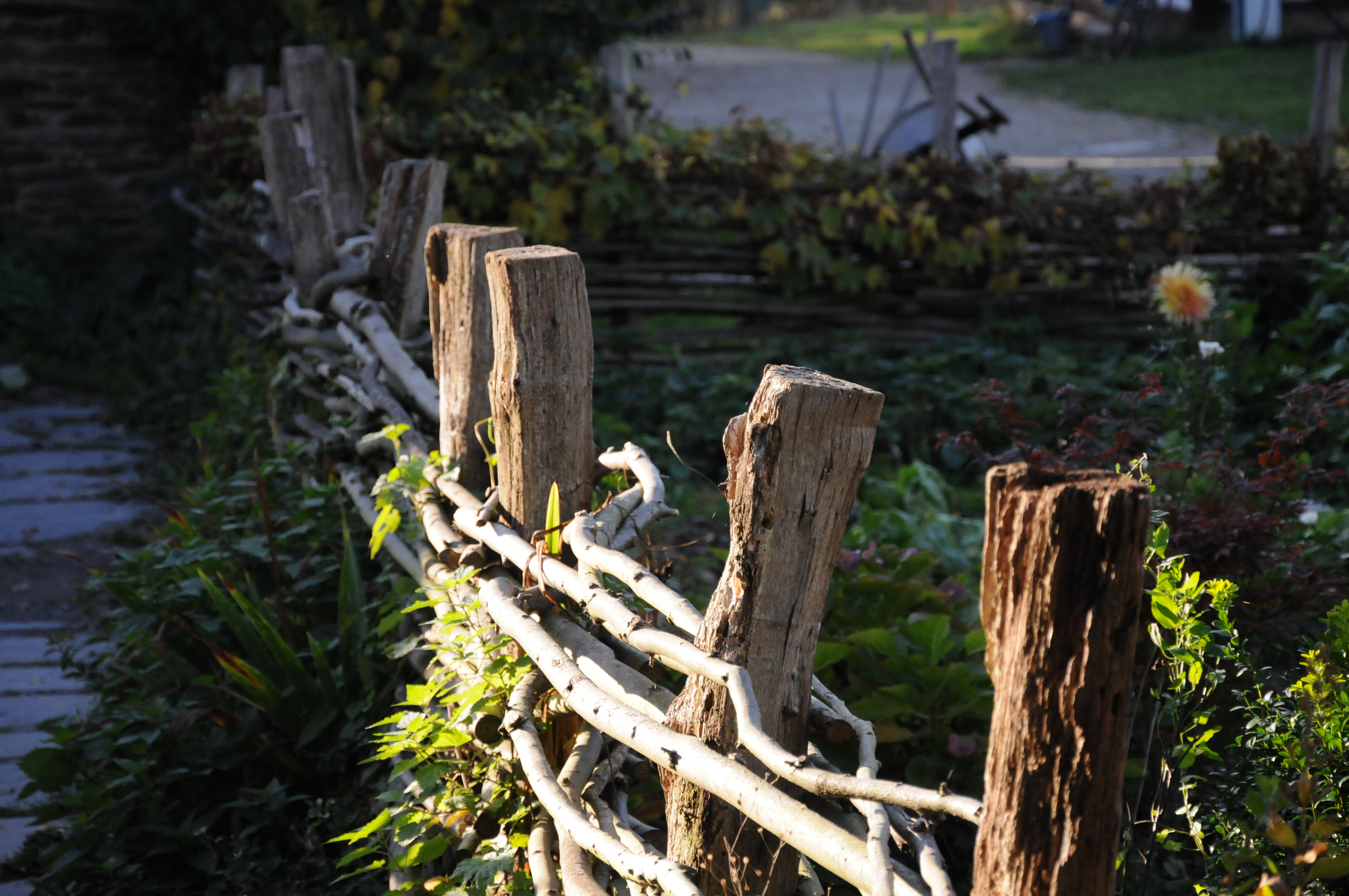 Open air museum Roscheider Hof, Konz, Germany, museum gardens